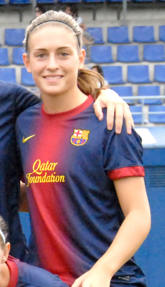 FC Barcelona women player Alexia Putellas in September 2012